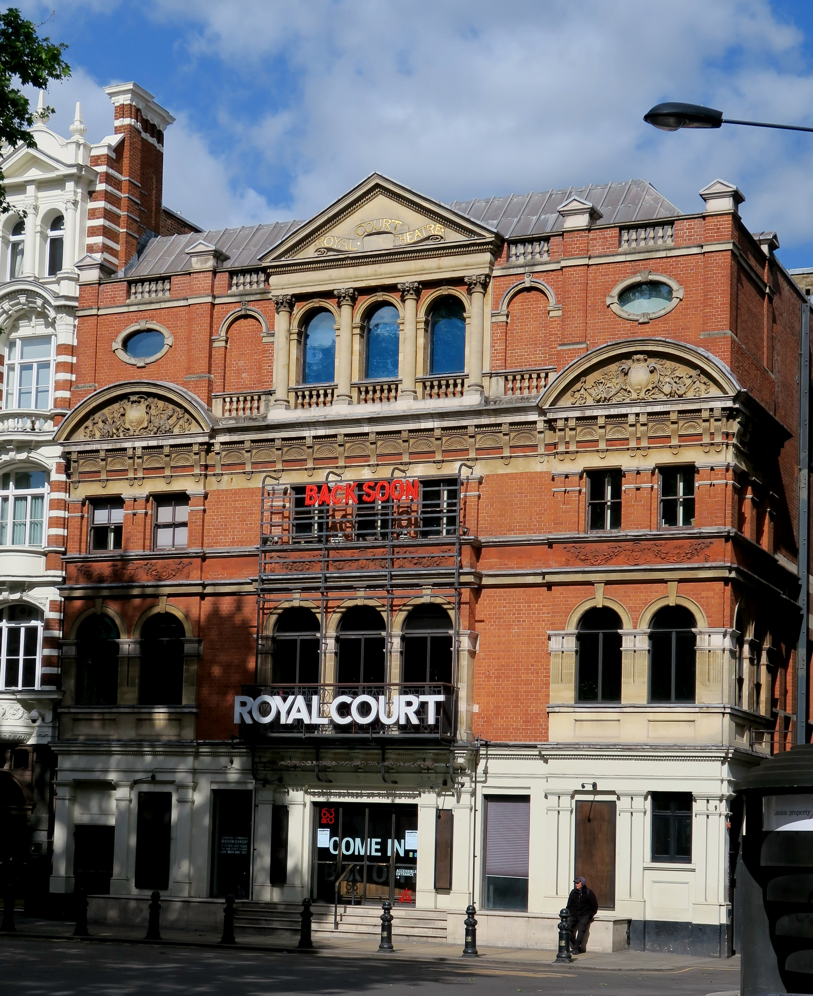 Royal Court theater, Sloane Square Chelsea London UK (2) Lockdown COVID 19. BACK SOON message.